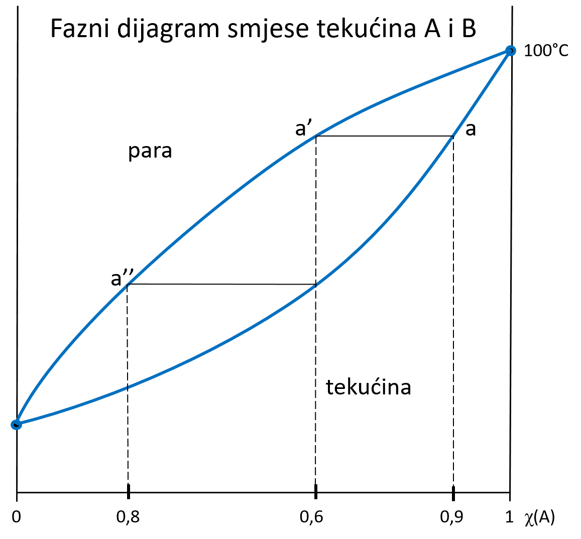 The phase diagram of a mixture of two liquids